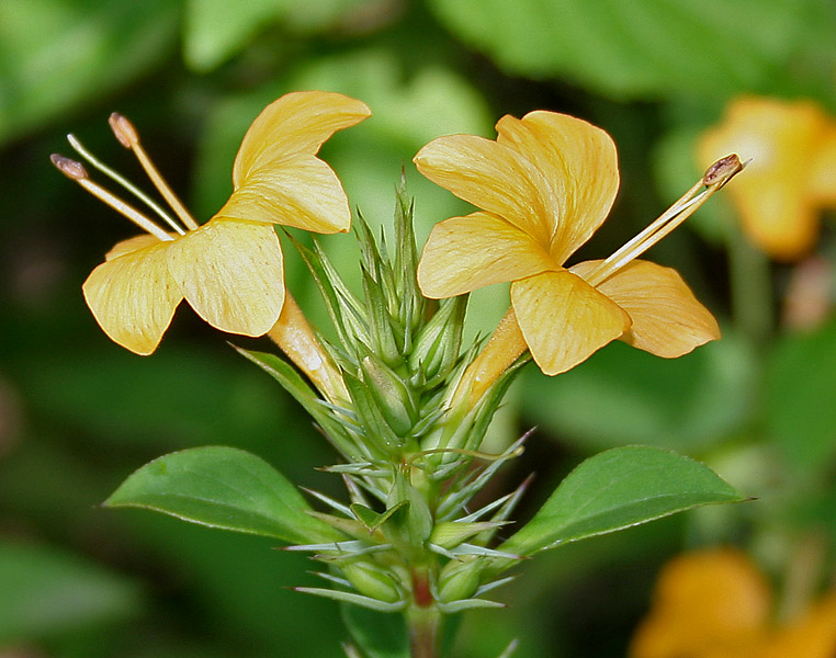 Porcupine flower Barleria prionitis in Hyderabad , India.